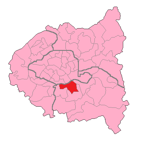 Map of Val-de-Marne's 10th constituency shown within Ile-de-France (Petite Couronne)